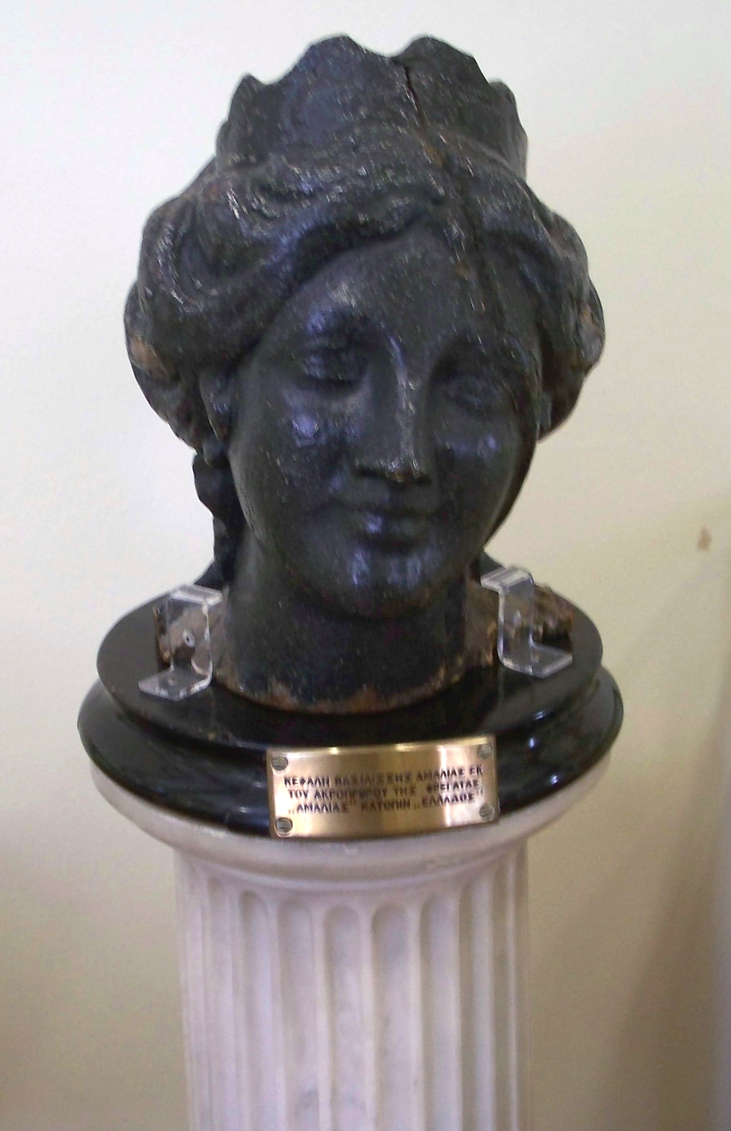 Figurehead in the likeness of Amalia (Αμαλία), first queen of greece, from the ship by the same name. National Historical Museum, Athens, Greece.